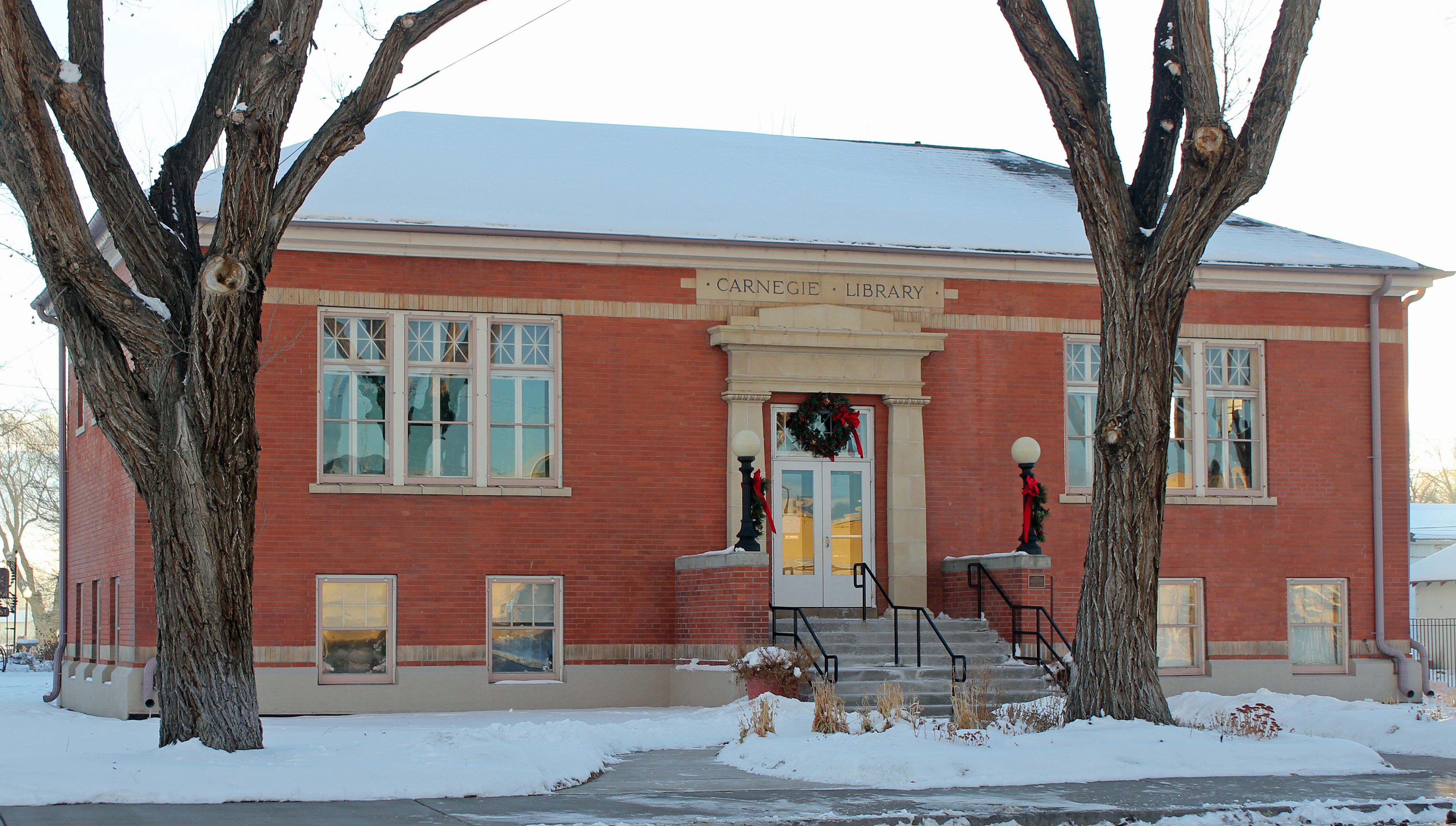 The Carnegie Library, located at 120 Jefferson Street in Monte Vista, Colorado. The property is listed on the National Register of Historic Places.